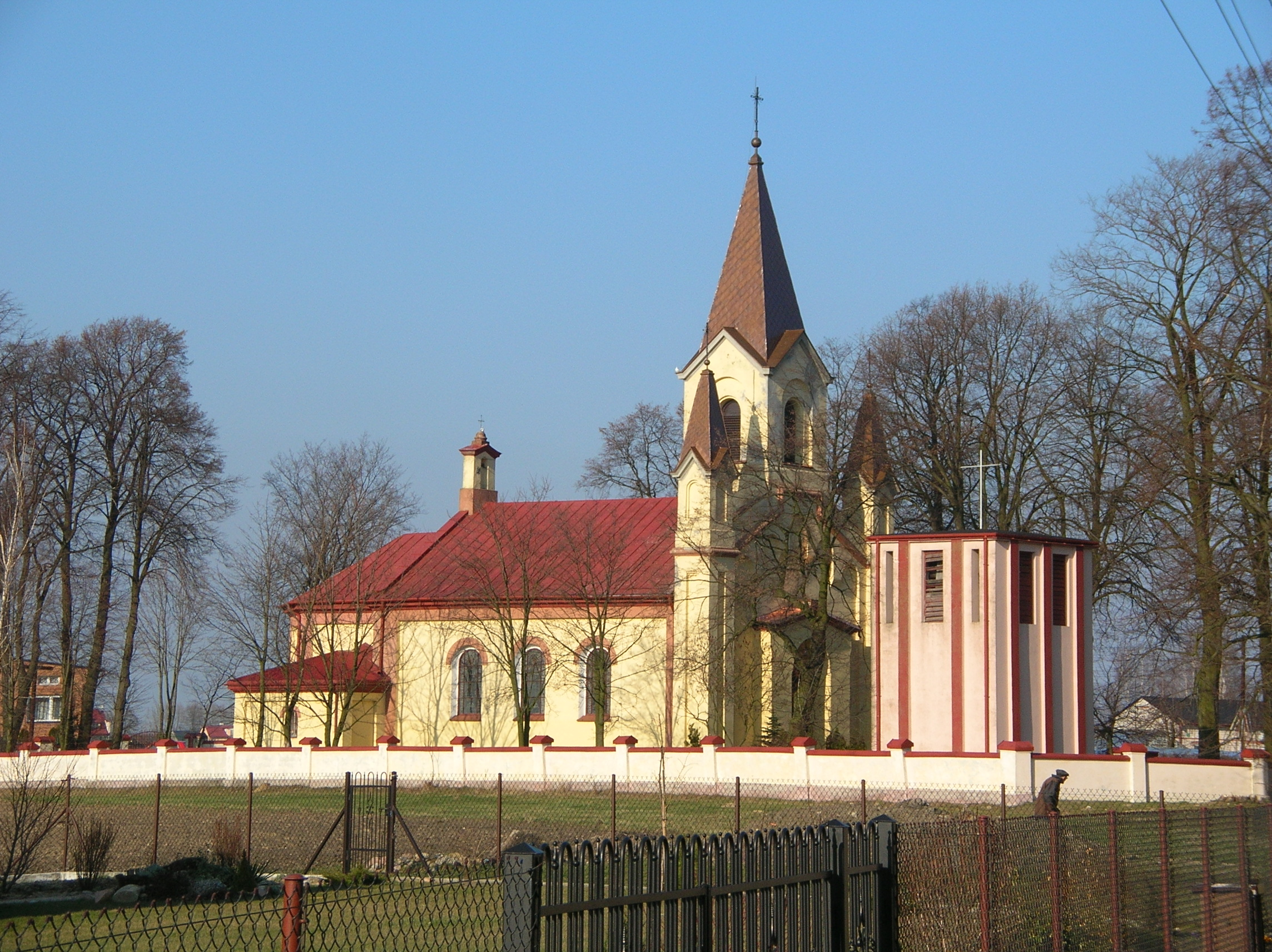 Saint Nicholas church in Gomulin, Poland